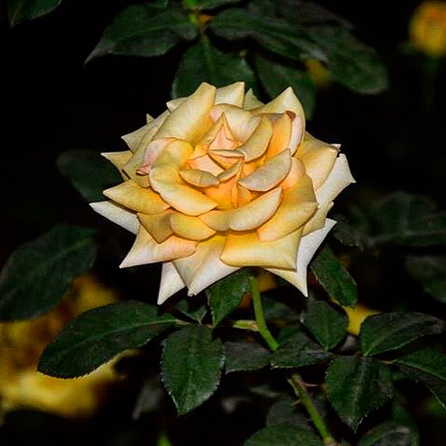 Yellow Rose in a flower show at Agri Hoticultural Society of India.